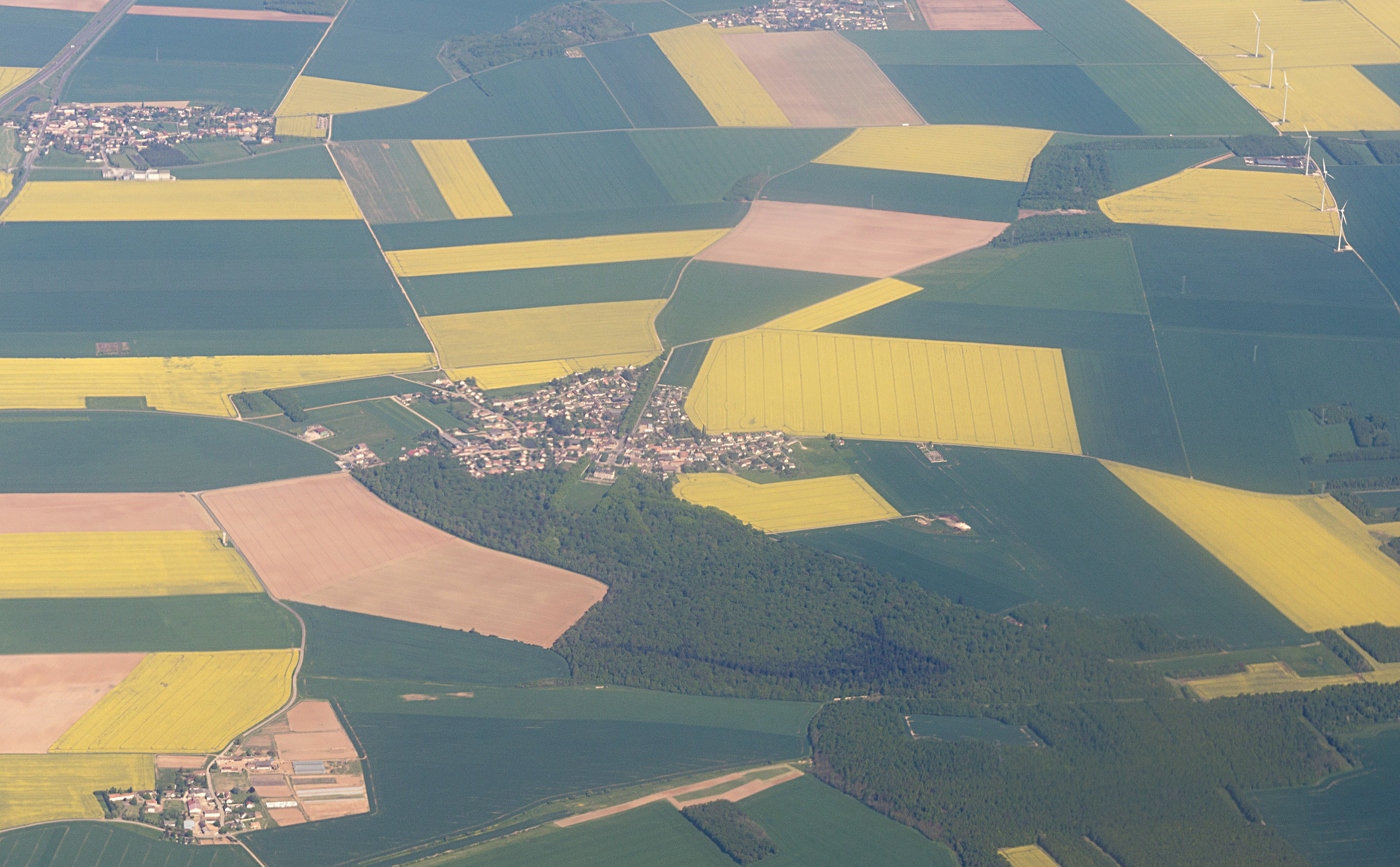 Aerial view of Le Boullay-Thierry during a flight between RNS and CDG.